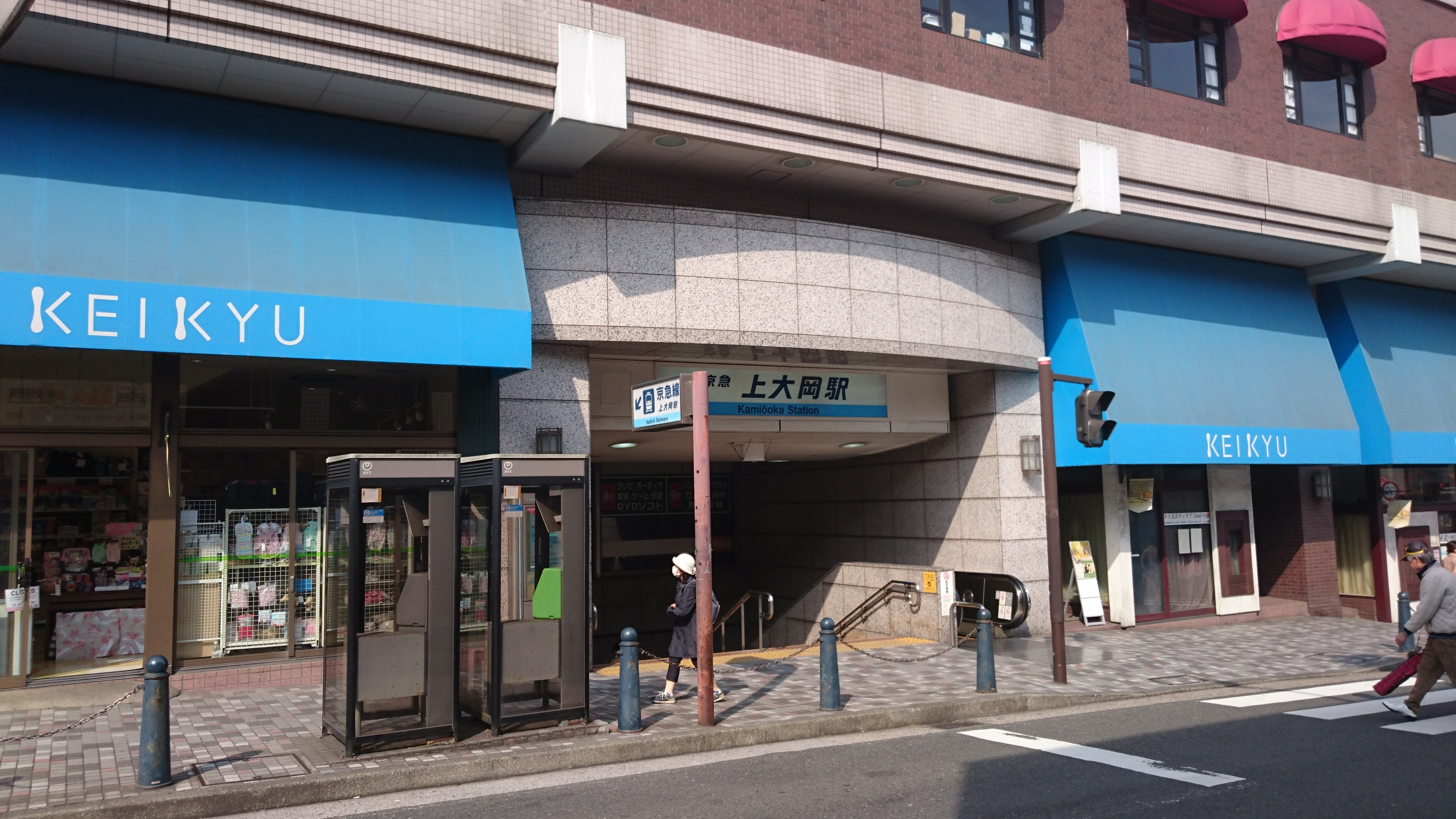 East entrance of Kamiōoka Station